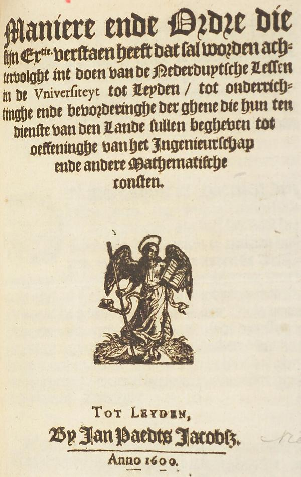 Instructie voor de Duytsche Mathematique, 1600 1/6